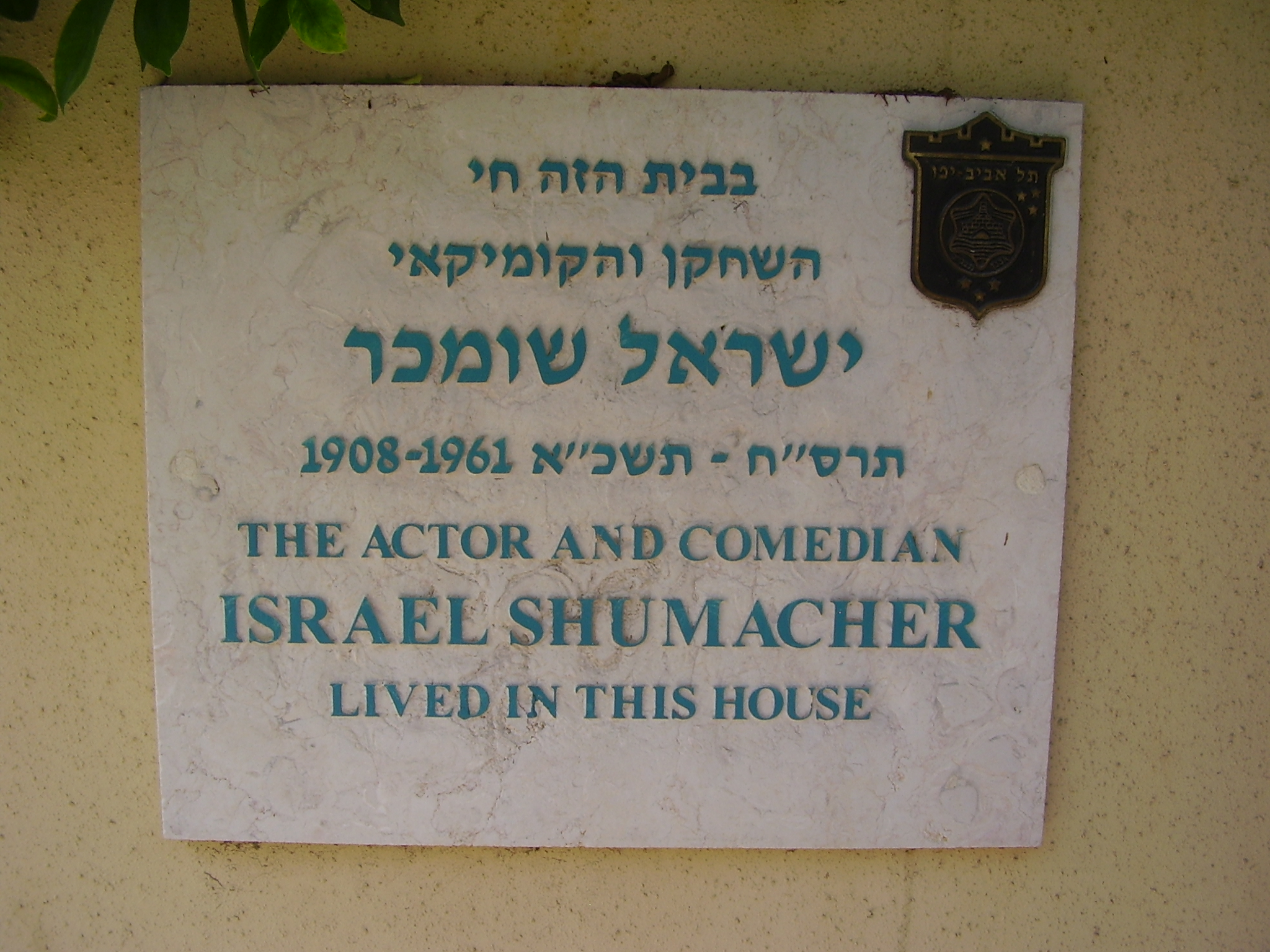 plaque memorial on the actor and comedian israel schumacher house in tel aviv לוחית זיכרון על ביתו של ישראל שומכר ברח' מהר"ל 17 בתל אביב